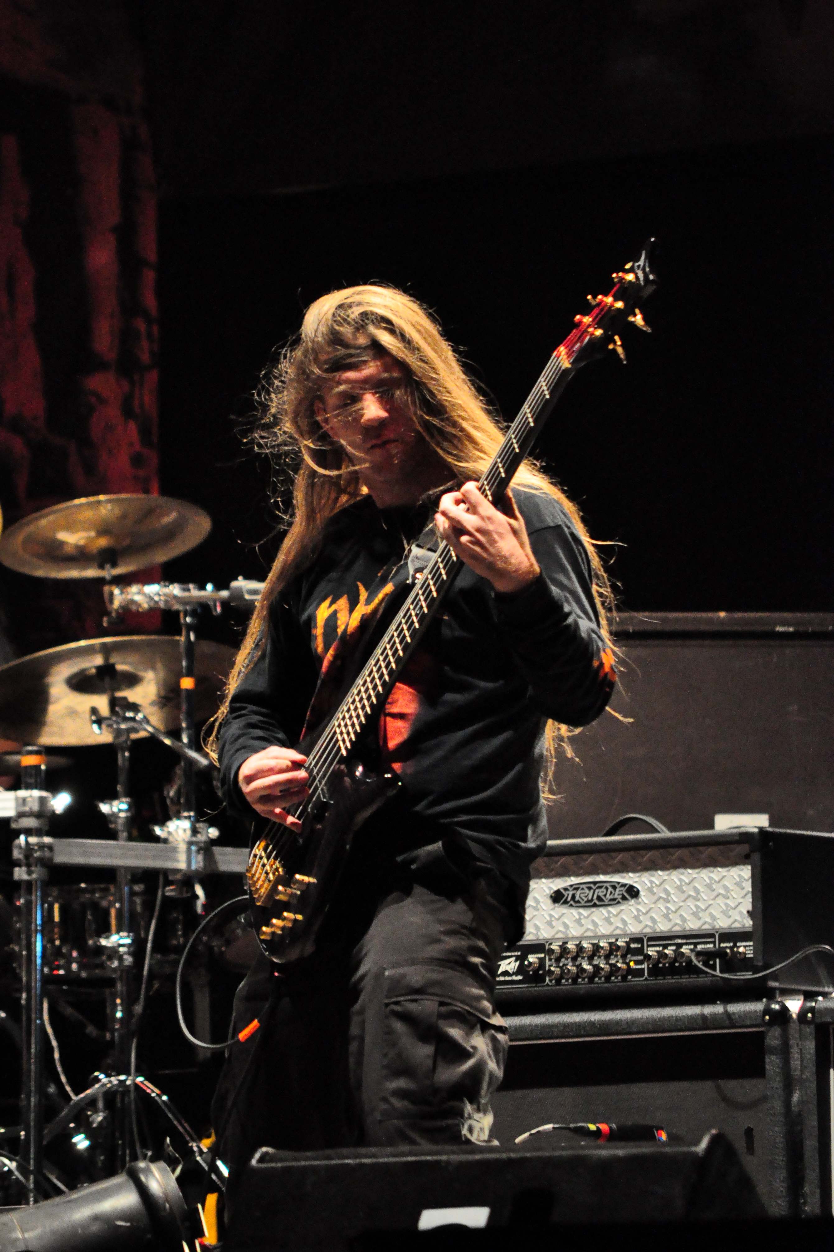 Nile at Party.San Open Air 2012